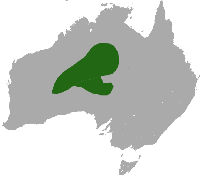 Fat-tailed False Antechinus (Pseudantechinus macdonnellensis) range